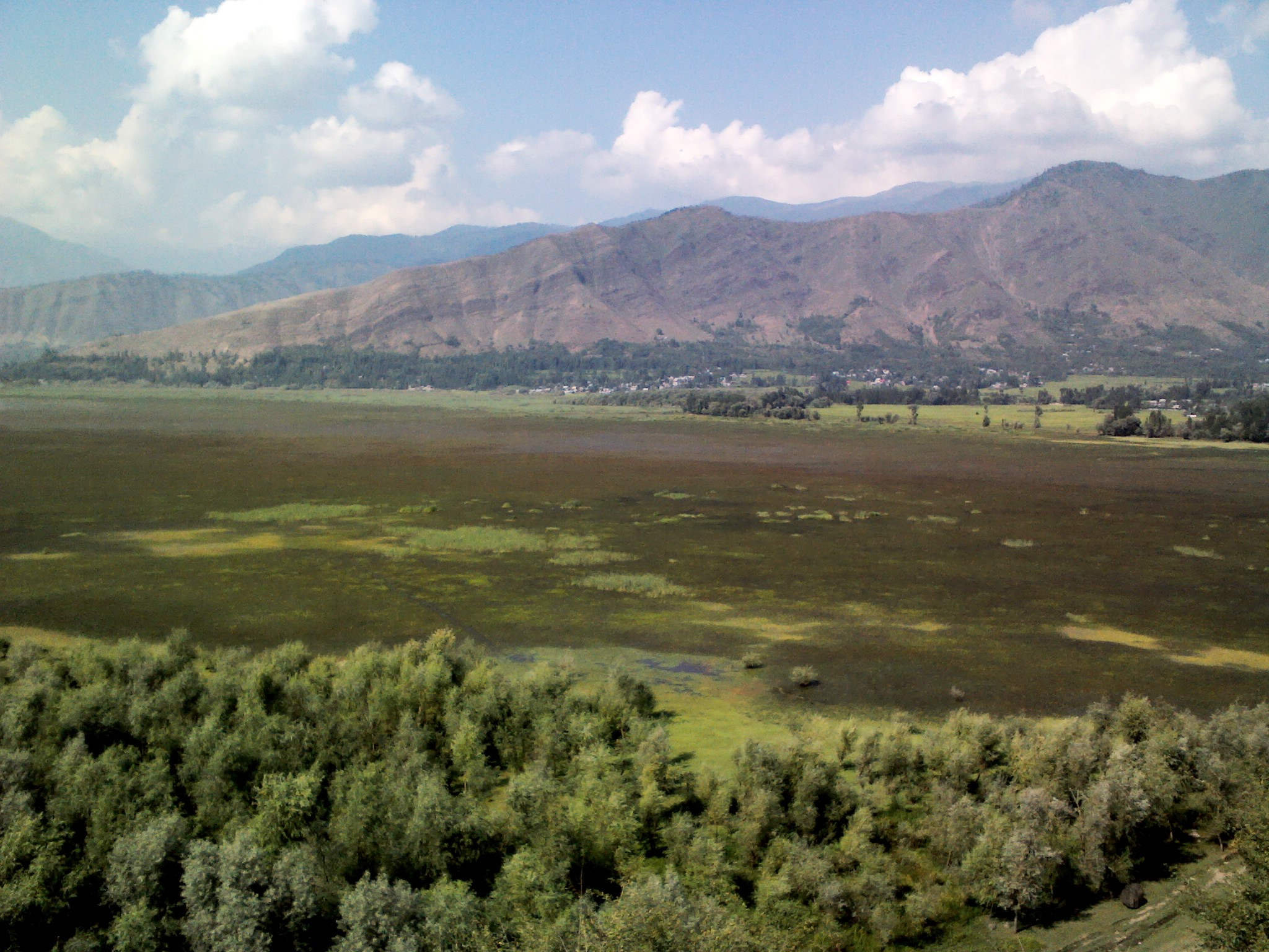 Wular lake seen from Saderkote Park